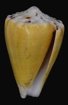 The shell of Conus regius Gmelin, 1791; yellow form citrinus.[1]